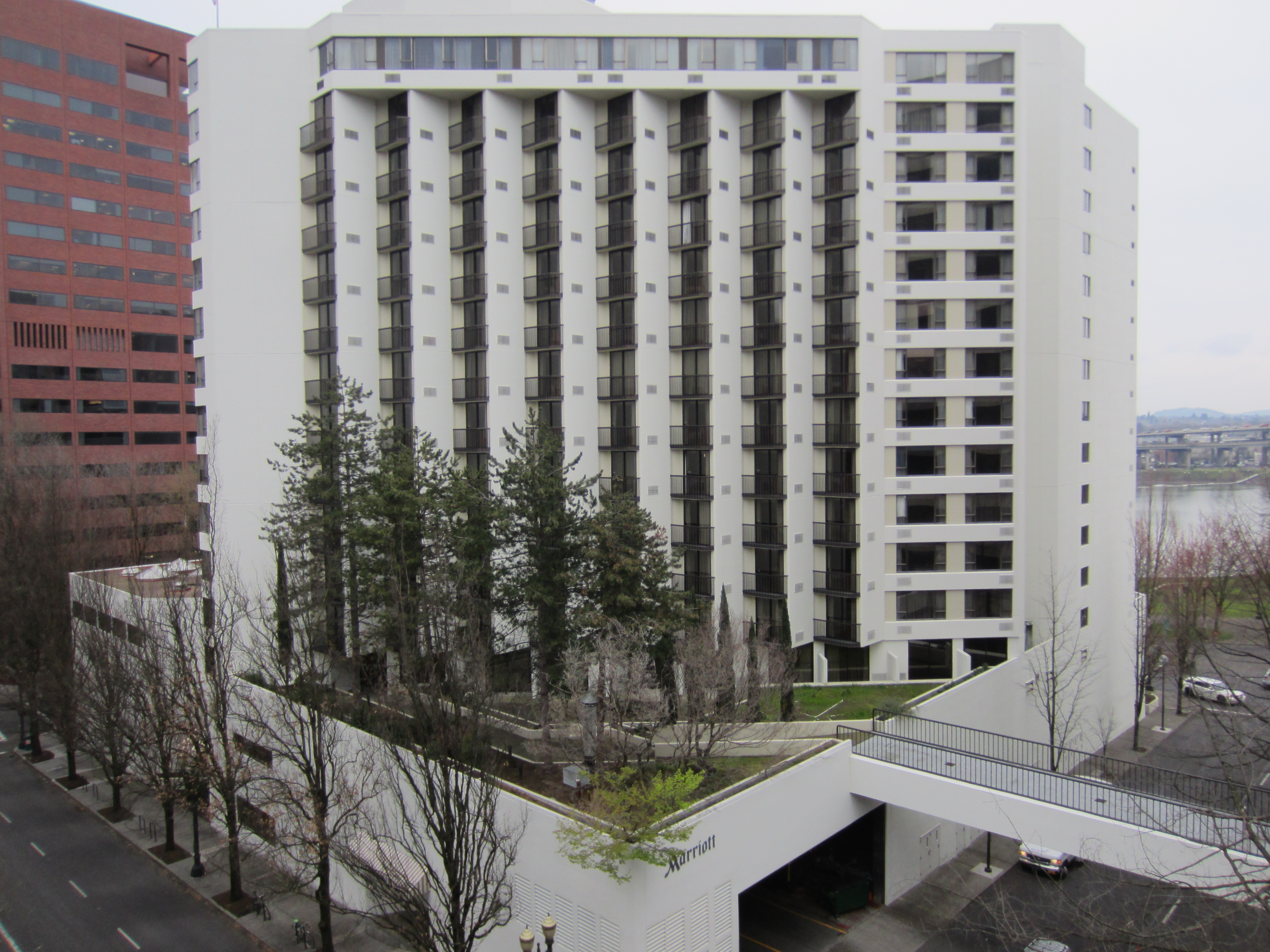 Marriott Portland Downtown Waterfront - Portland, Oregon (2013)